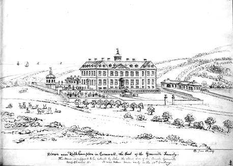 Stowe House, Kilkhampton, Cornwall, built by John Grenville, 1st Earl of Bath c. 1670/85, demolished 1739. Drawn by Buckler in 1827 from an unknown original depiction. Pencil on paper, length: 26.2 cm width: 35.8 cm. Inscribed: "Stowe House near Kilkhampton in Cornwall, the seat of the Grenville family. This house is supposed to be (sic) rebuilt by John the eldest son of Sir Beville Grenville temp. Charles II. It was taken down early in the 18th century"(sic).